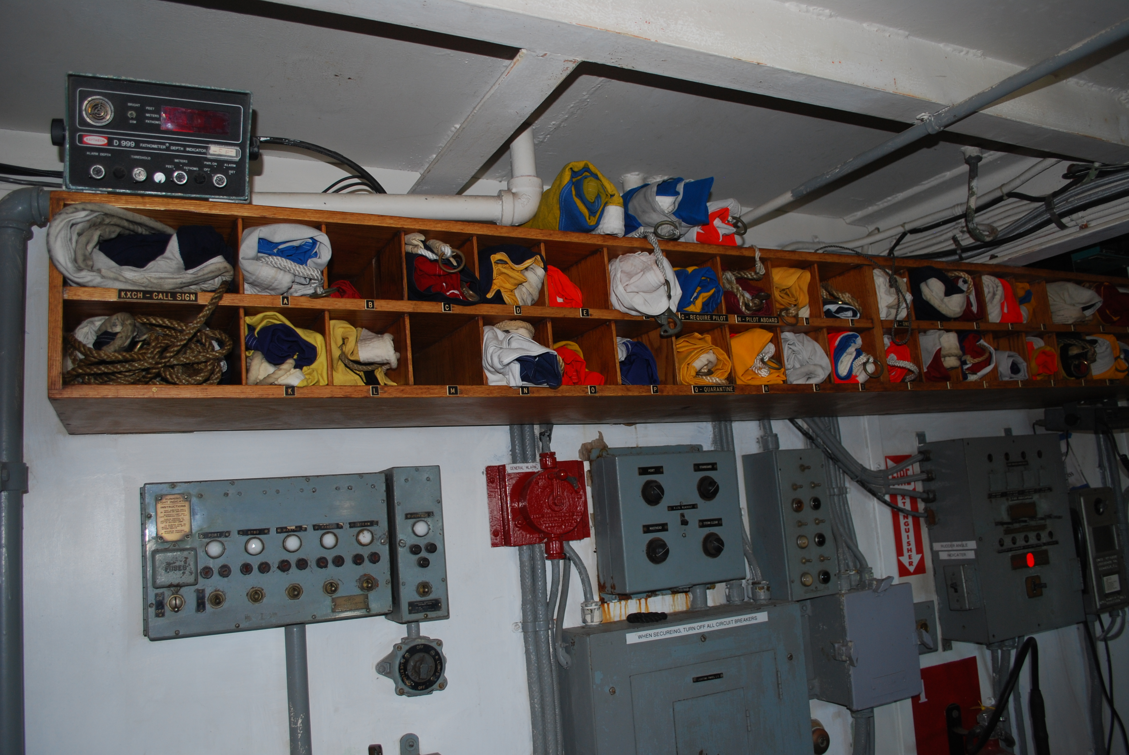 Nautical Signal Flags, Ready for use on Board of the SS Jeremia O'Brien